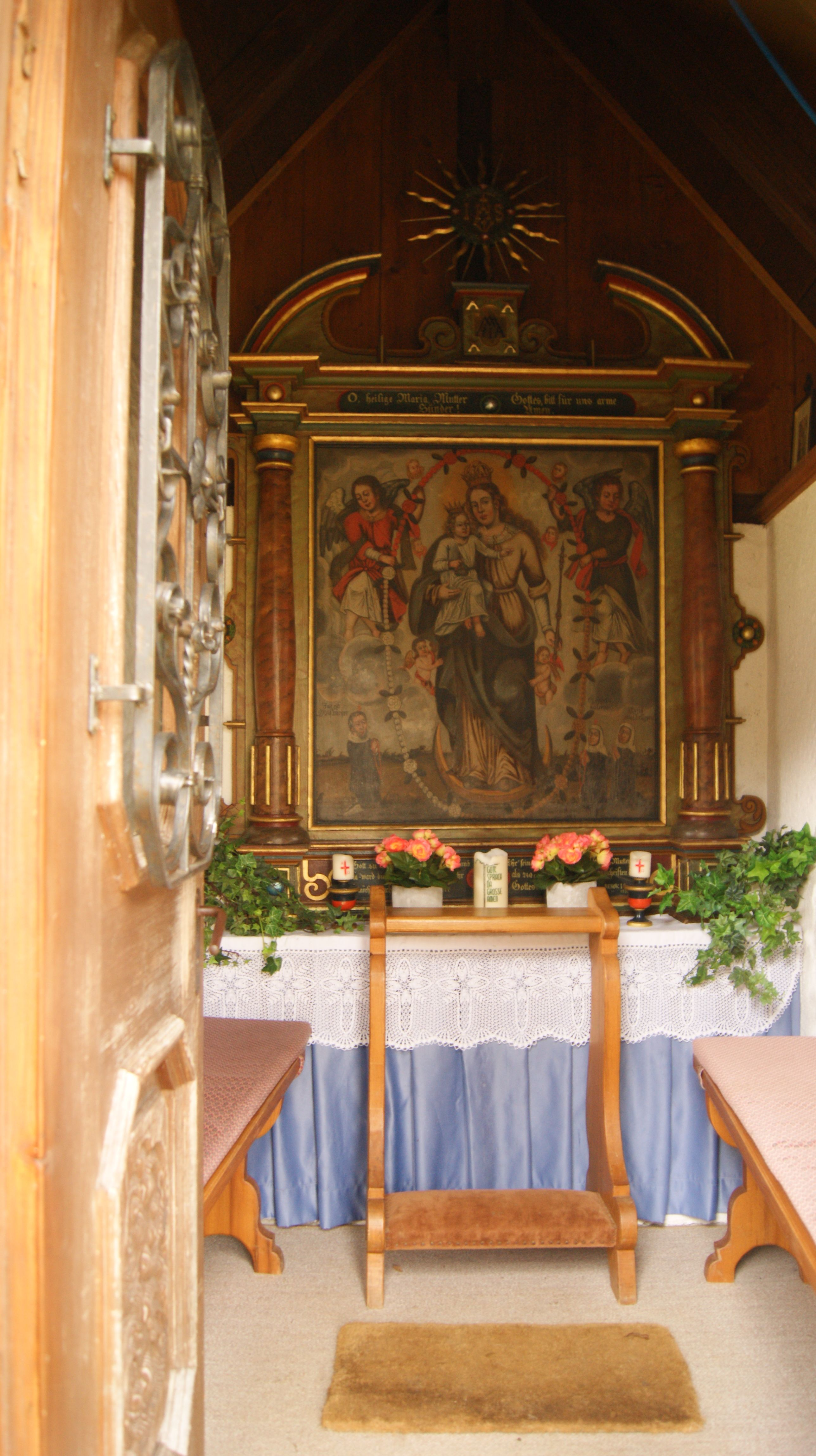 The "Bildbuehl" chapel is located in the district of "Bildbuehl" in Bizau, Vorarlberg, Austria, on an elevation of about 710 masl, and was built in the 17th century on the basis of a vow built.